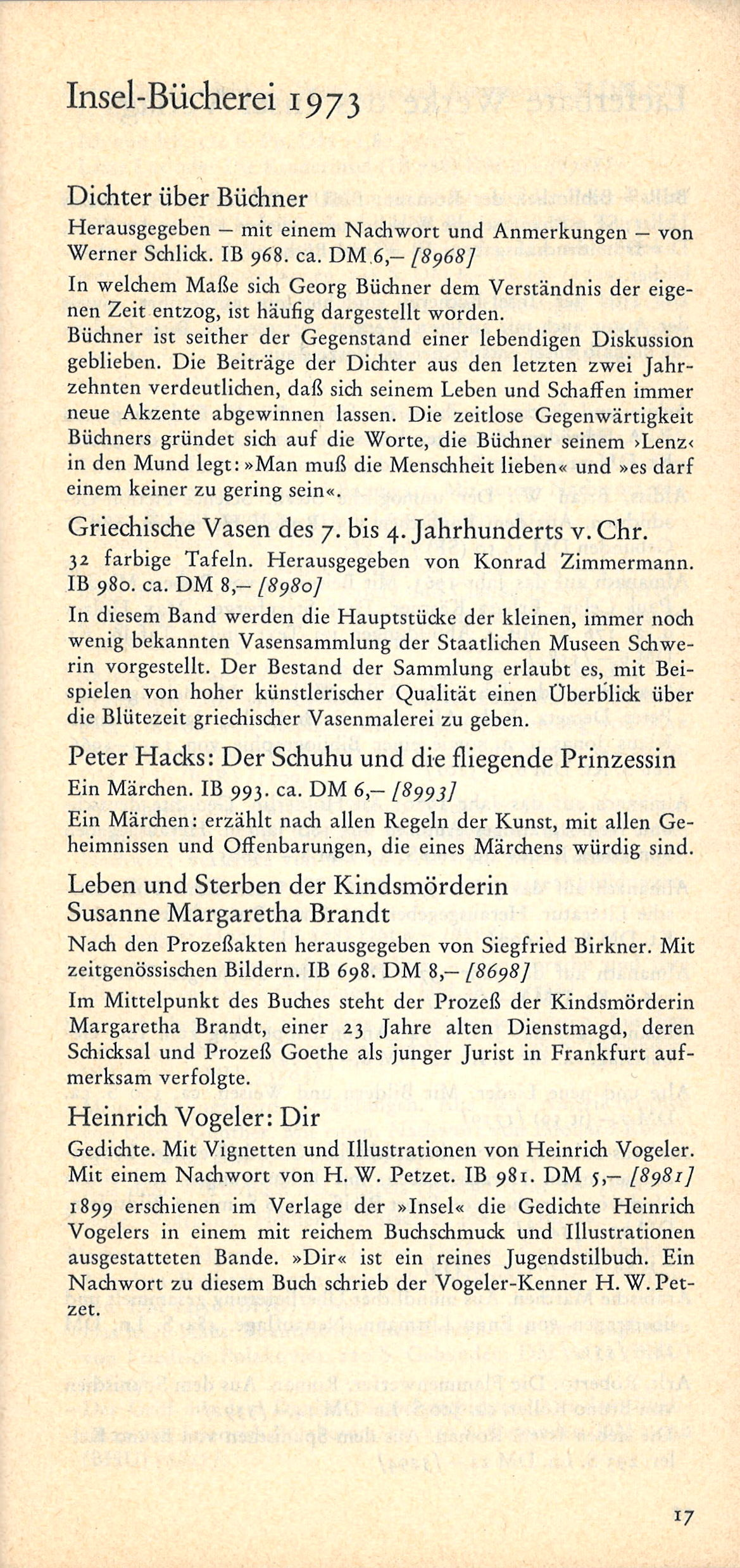 total directory of the books of the Insel Verlag 1973 (page 17)